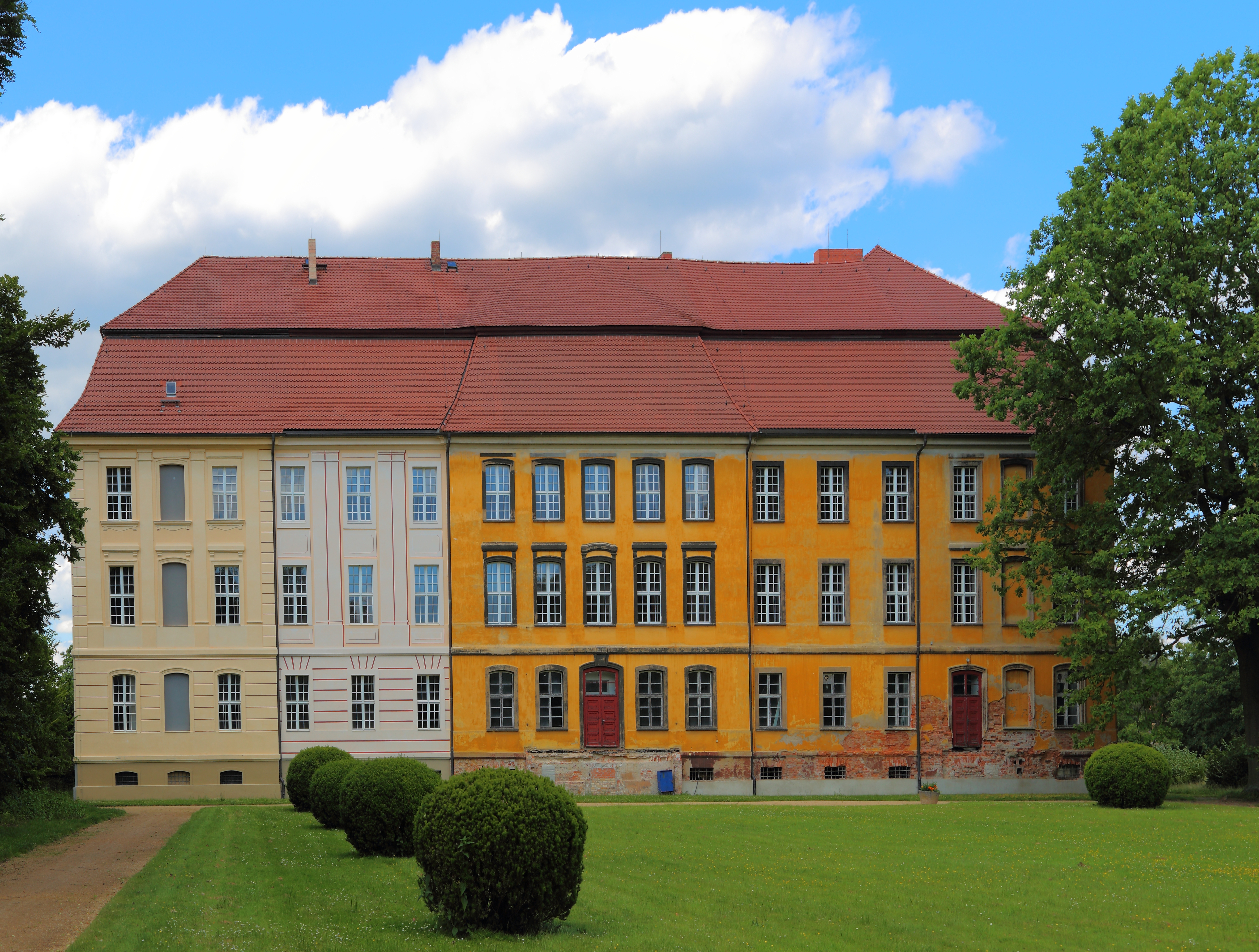 Lieberose Castle (Schloss Lieberose) in Lieberose, Landkreis Dahme-Spreewald, Brandenburg, Germany.